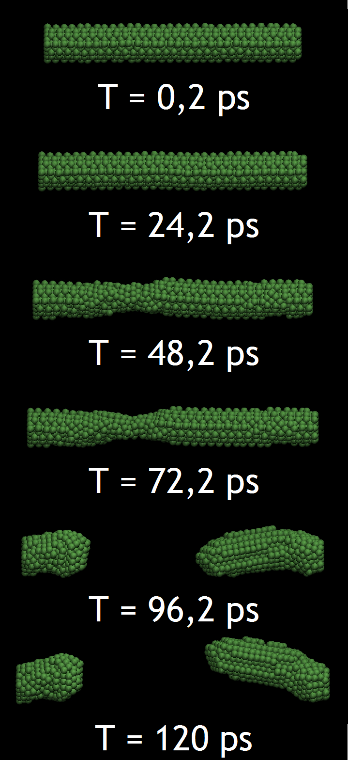 A MD simulation of Ni nanorod tension. Tension speed: 0,00002 nm/fs. Number of atoms: 1519. Simulation was performed using nanoMD program on server. Visualisation made in VMD 1.9.